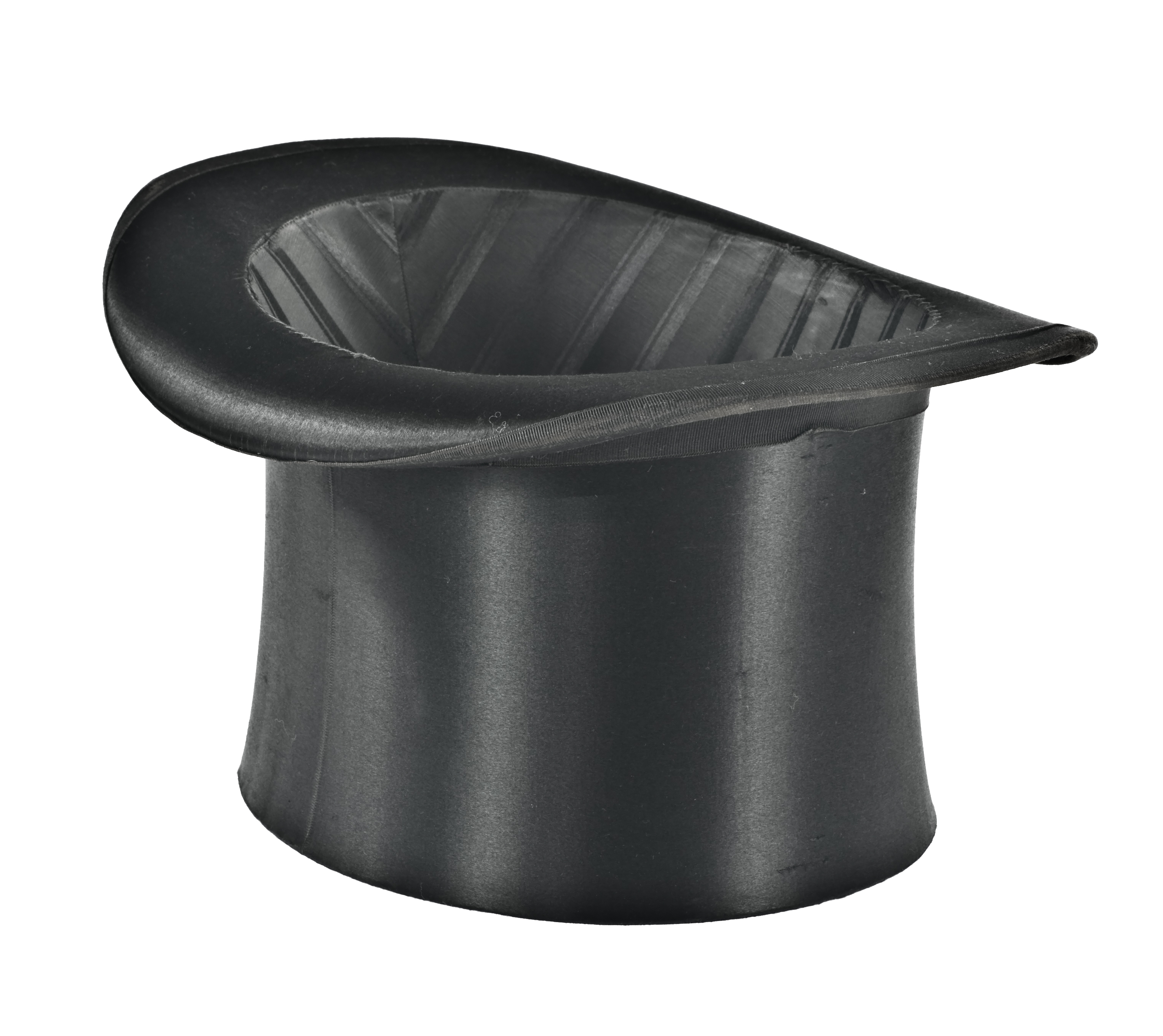 Collapsible top hat